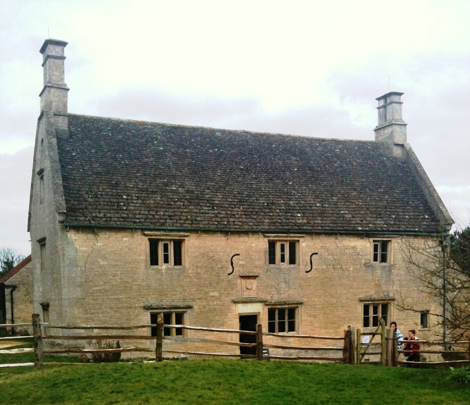 The birthplace of Sir Isaac Newton